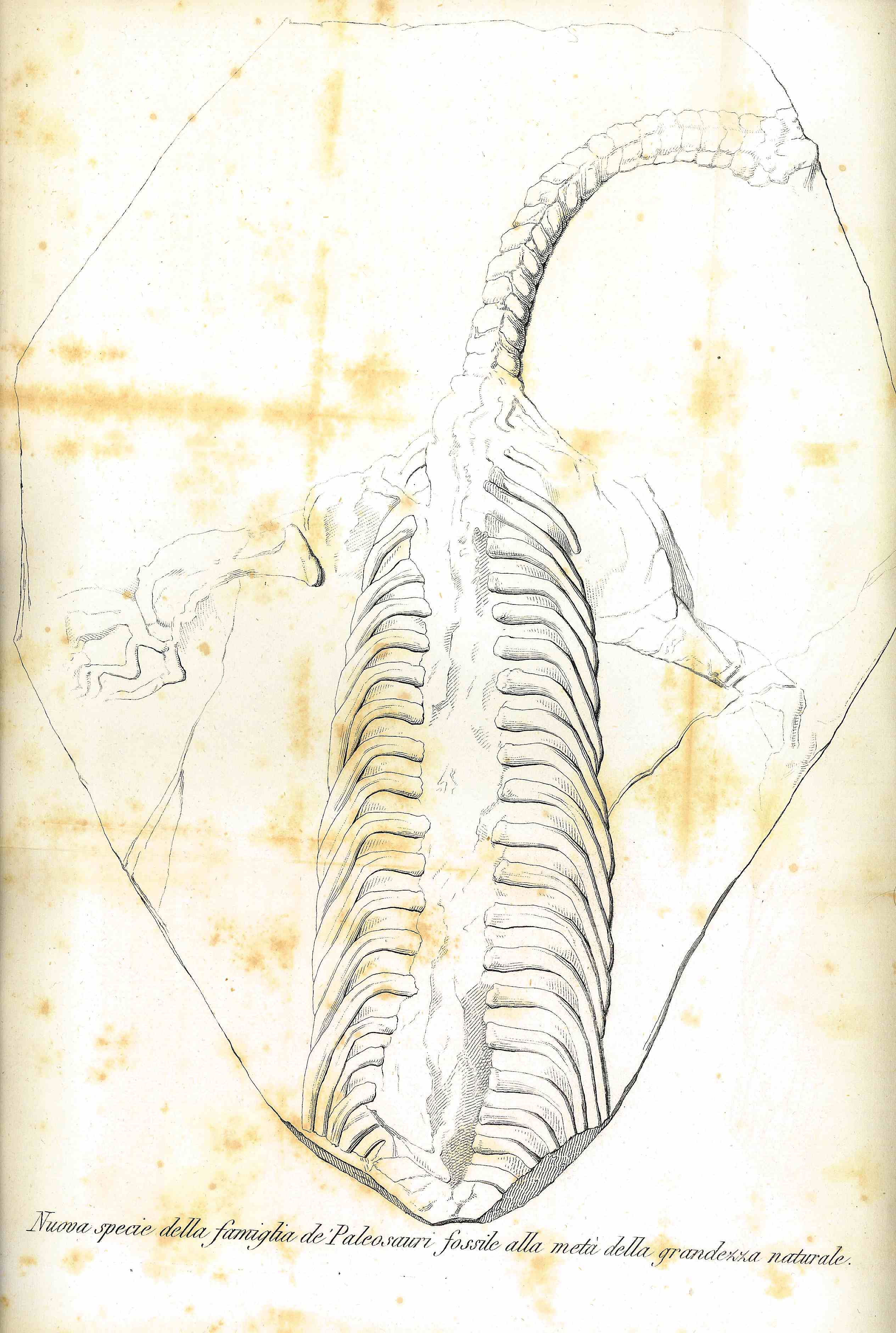 A picture from the first issue of "Il Politecnico" by Carlo Cattaneo (1839)